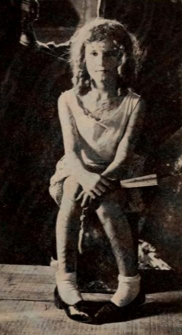 Still from the American film Edgar Camps Out (1920) with Lucille Ricksen as the tattooed lady, from page 79 of the November 20, 1920 Exhibitors Herald. This short film was episode 6 of the 12 part film series called The Adventures and Emotions of Edgar Pomeroy.